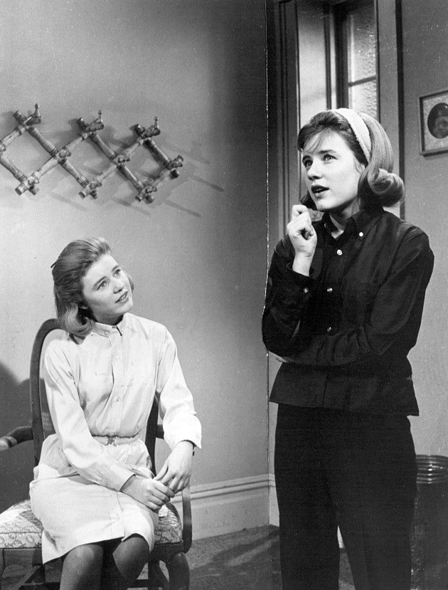 Photo of Patty Duke in a dual role of identical cousins from The Patty Duke Show. The photo has no copyright markings on it as can be seen in the links above.